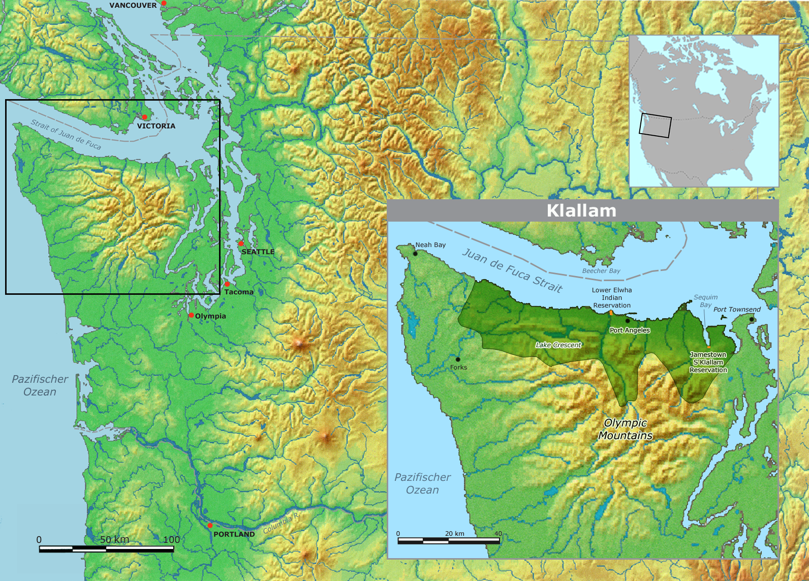 Map of Klallam traditional tribal territory and reservations